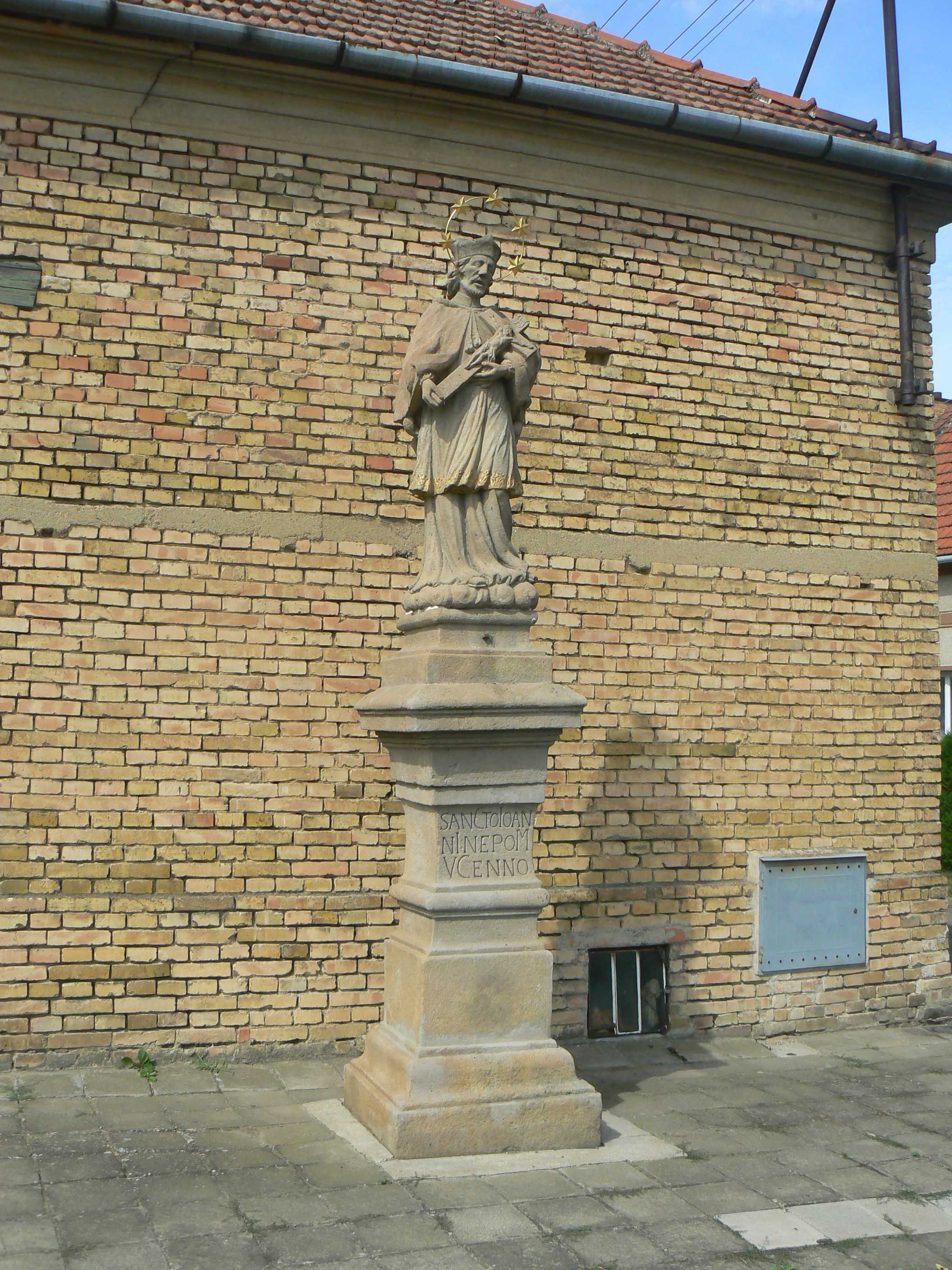 Statue of a Saint John of Nepomuk in Nesovice, Vyškov District, Czech Republic.